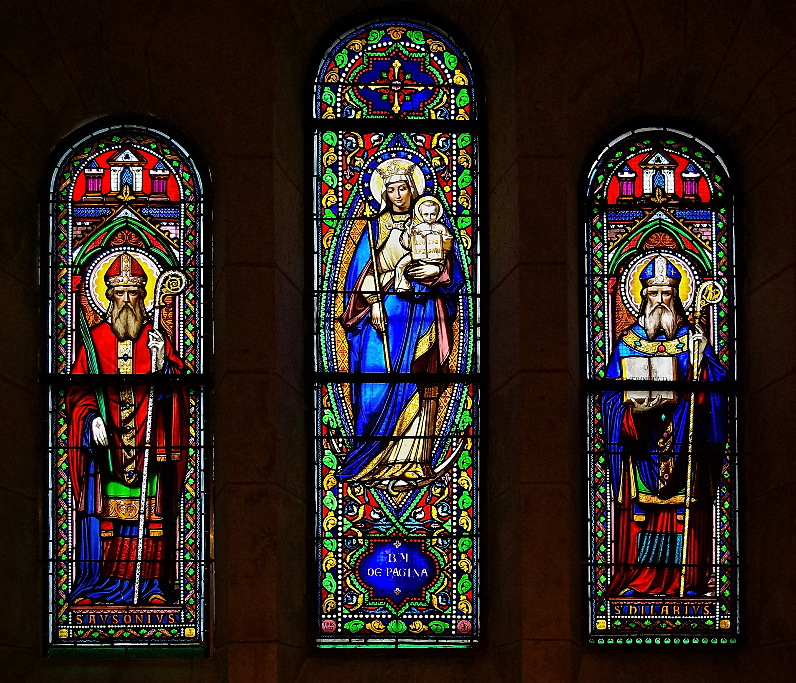 Three stained glass-windows of the 19th century chapel preserved in the museum of Angoulême, Charente, France.